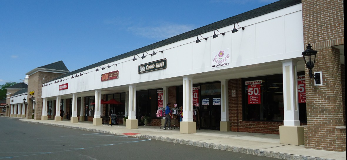 Shopping center. New Providence, New Jersey, is a borough in Union County and about 40 minutes west of Manhattan.